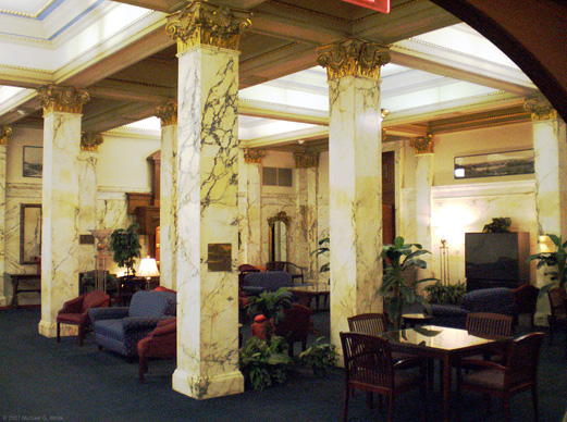 A TV lounge inside the William Pitt Union at the University of Pittsburgh. photo by Michael G White